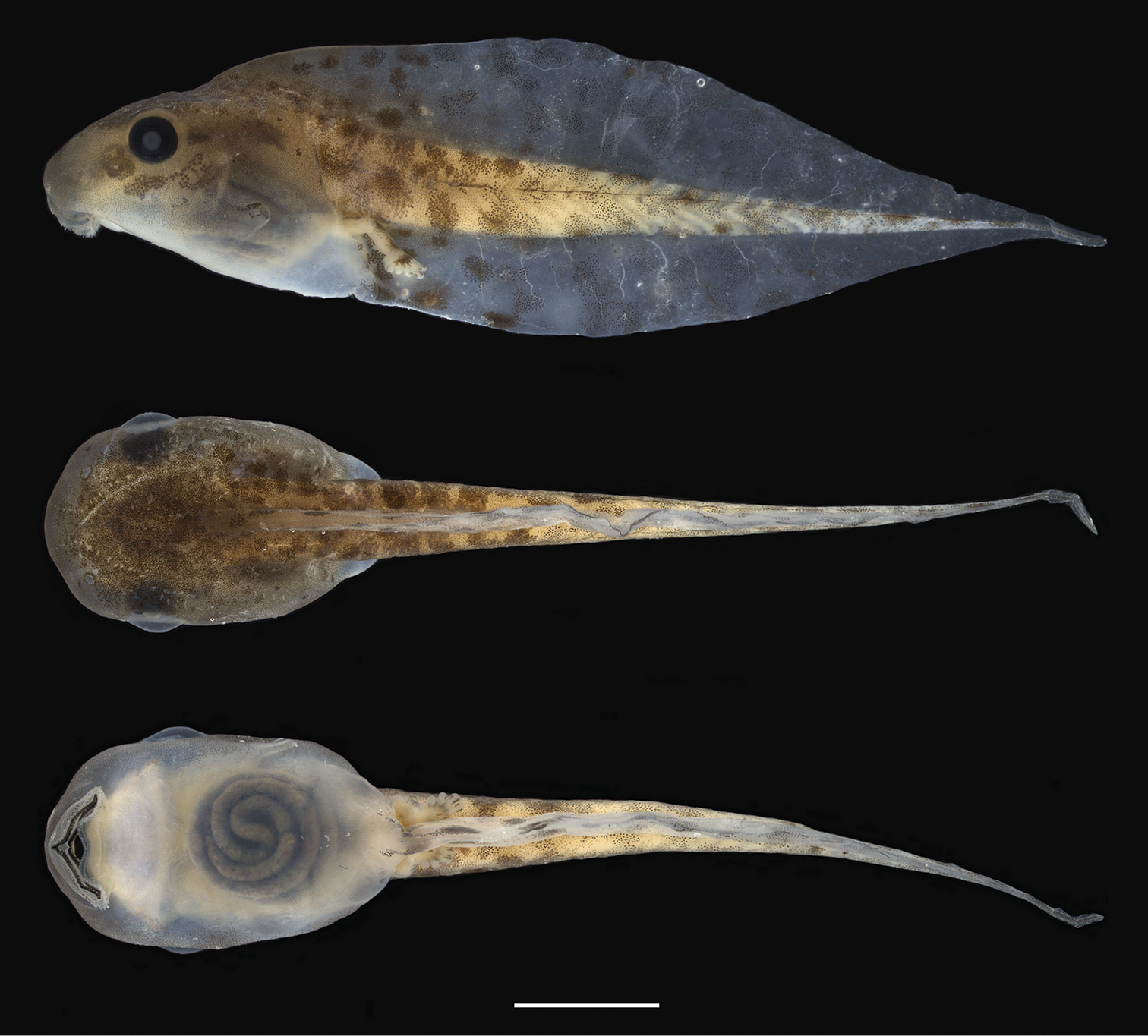 Tadpole of Scinax onca sp. n. from the middle Purus-Madeira Interfluve (lot INPA-H 35411). Specimen collected at kilometre 350 of the BR-319 highway, municipality of Beruri, State of Amazonas, Brazil. From top to bottom: dorsal, ventral, and lateral views of preserved tadpole in developmental Stage 37. Scale bar 5 mm.